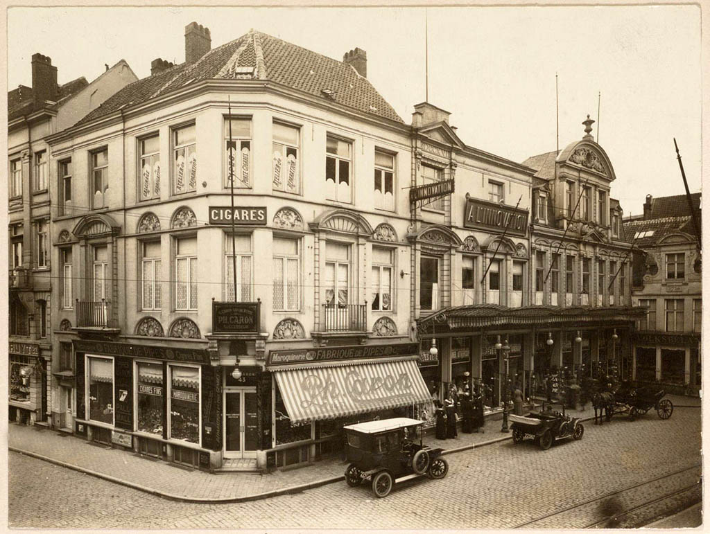 Veldstraat, Ghent, Belgium.jpg